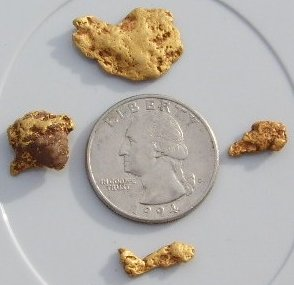 Gold Nuggets Found by Rod Fitzhugh and Ted Scott in Arizona, on March 26th 2006.